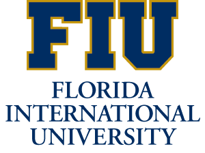 logo for Florida International University.